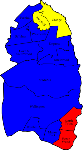 A map of the results of the 2007 Rushmoor Council election. Colour legend by wards won: Liberal Democrats Conservative party Labour party